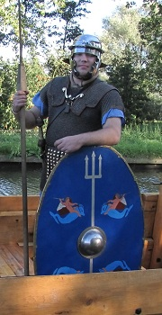 Marine of the Classis Germanica by Pax Romana.